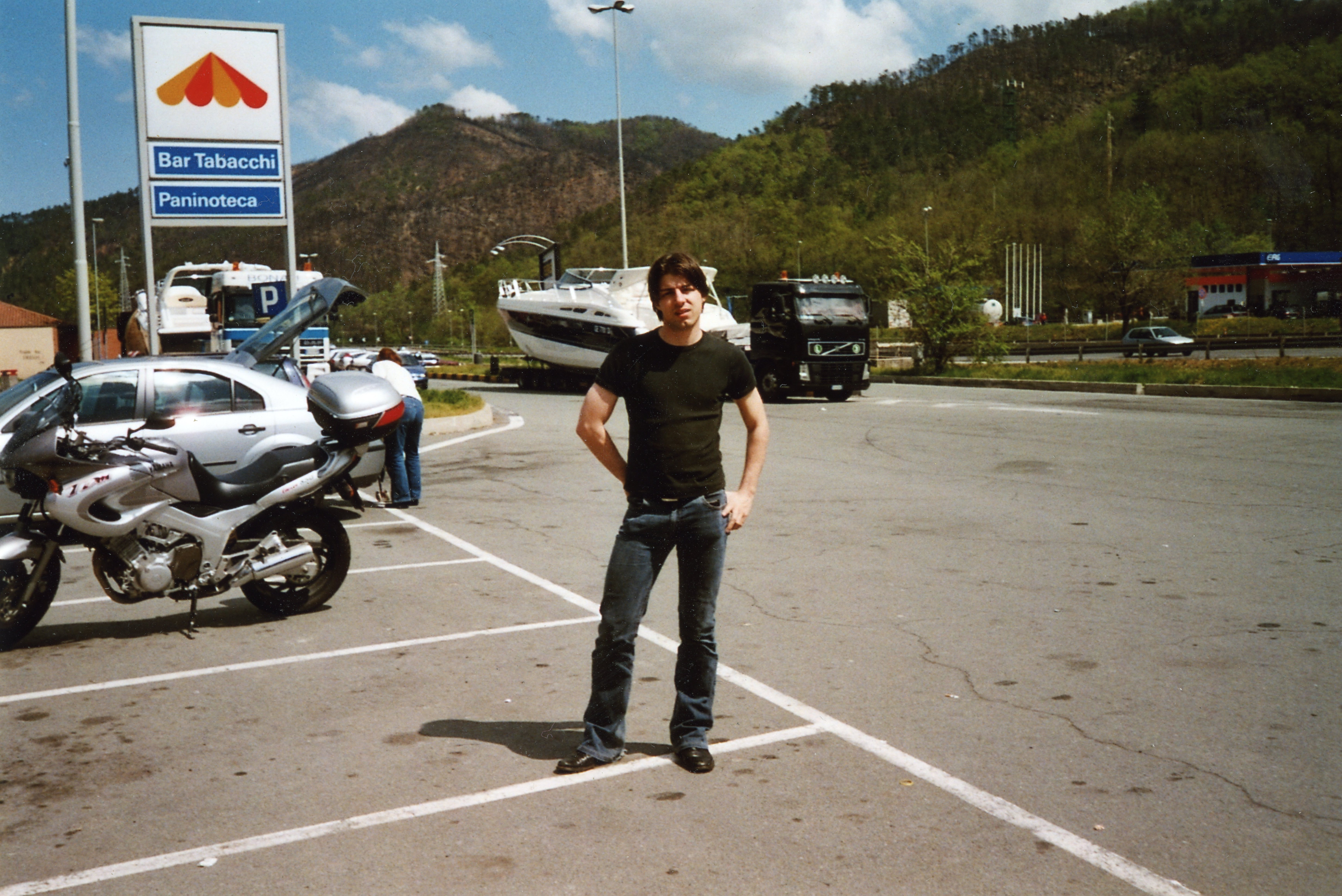 Andreas Kaplan